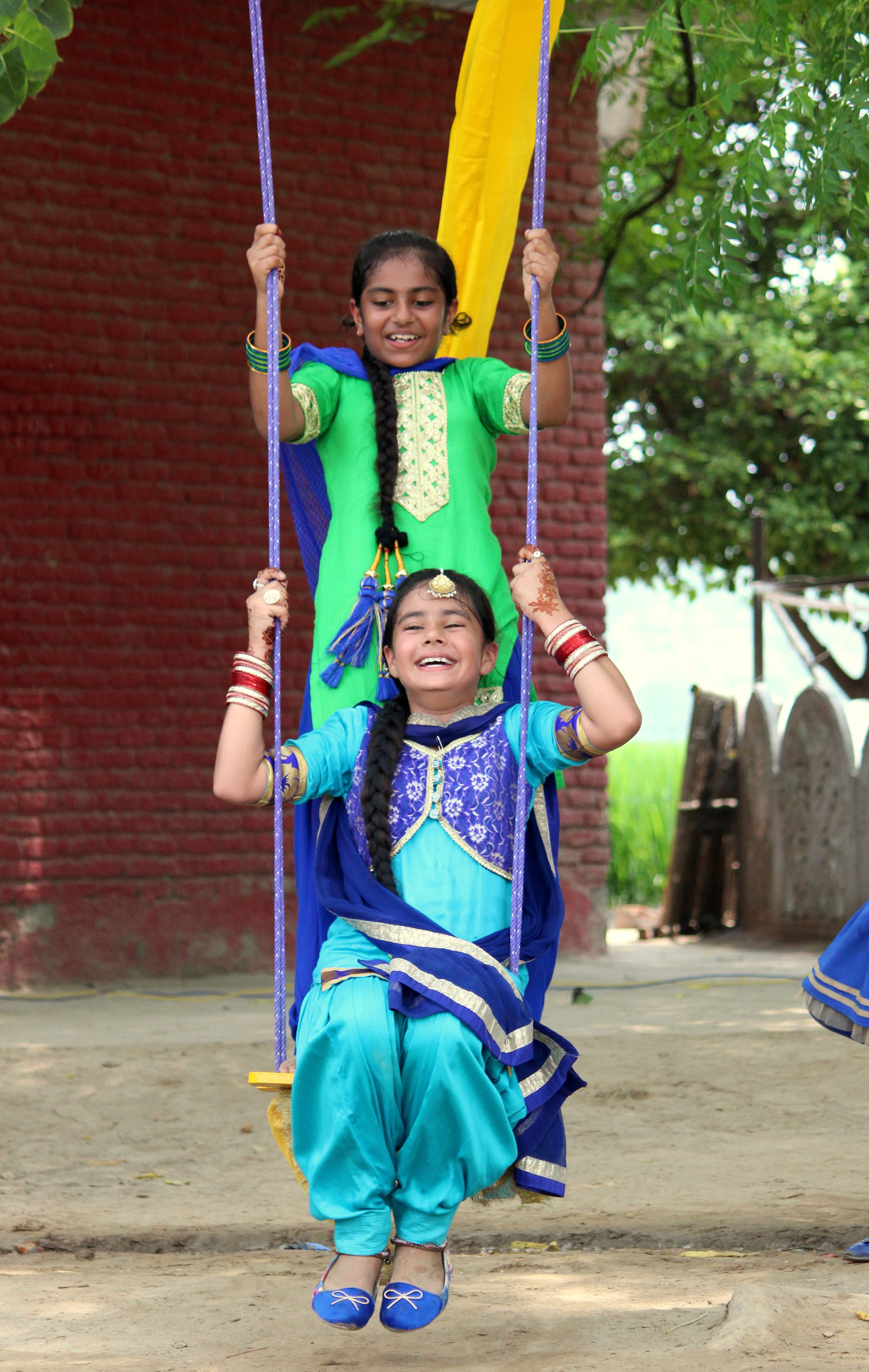 peengh juthdiyan kudiya'n